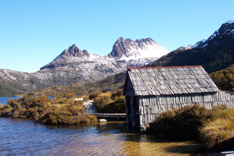 Dove Lake and Cradle Mountain, Tasmanian Central Highlands